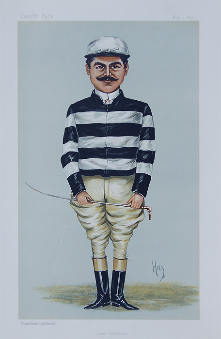 Men of the Day No.0564: Caricature of The Count of Catena. Caption reads: "Count Strickland"